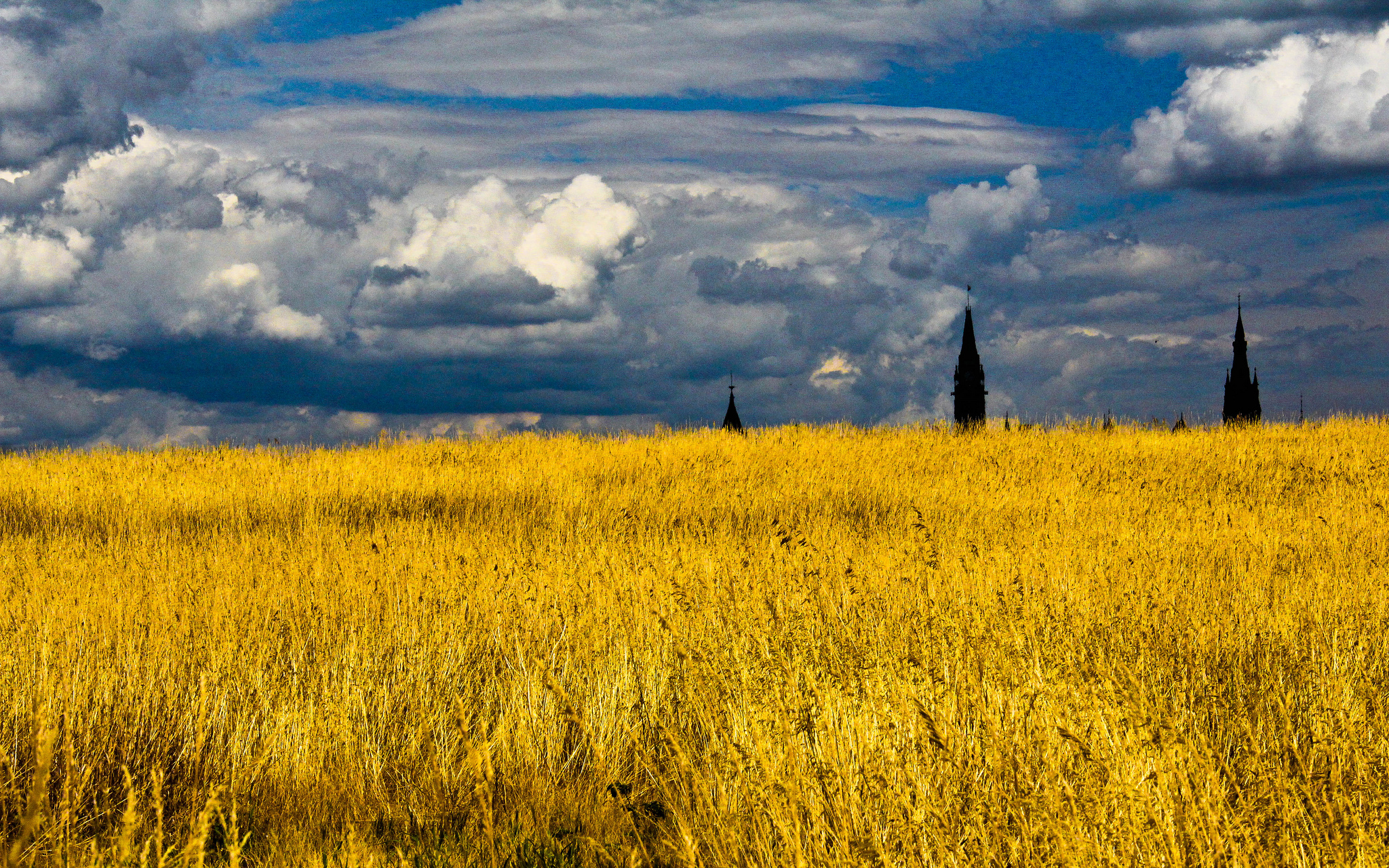 What appears to be a wheatfield in downtown Ottawa is actually the green roof on top of the Canadian War Museum in Ottawa, Canada. The spires of Parliament Hill are visible in the distance.